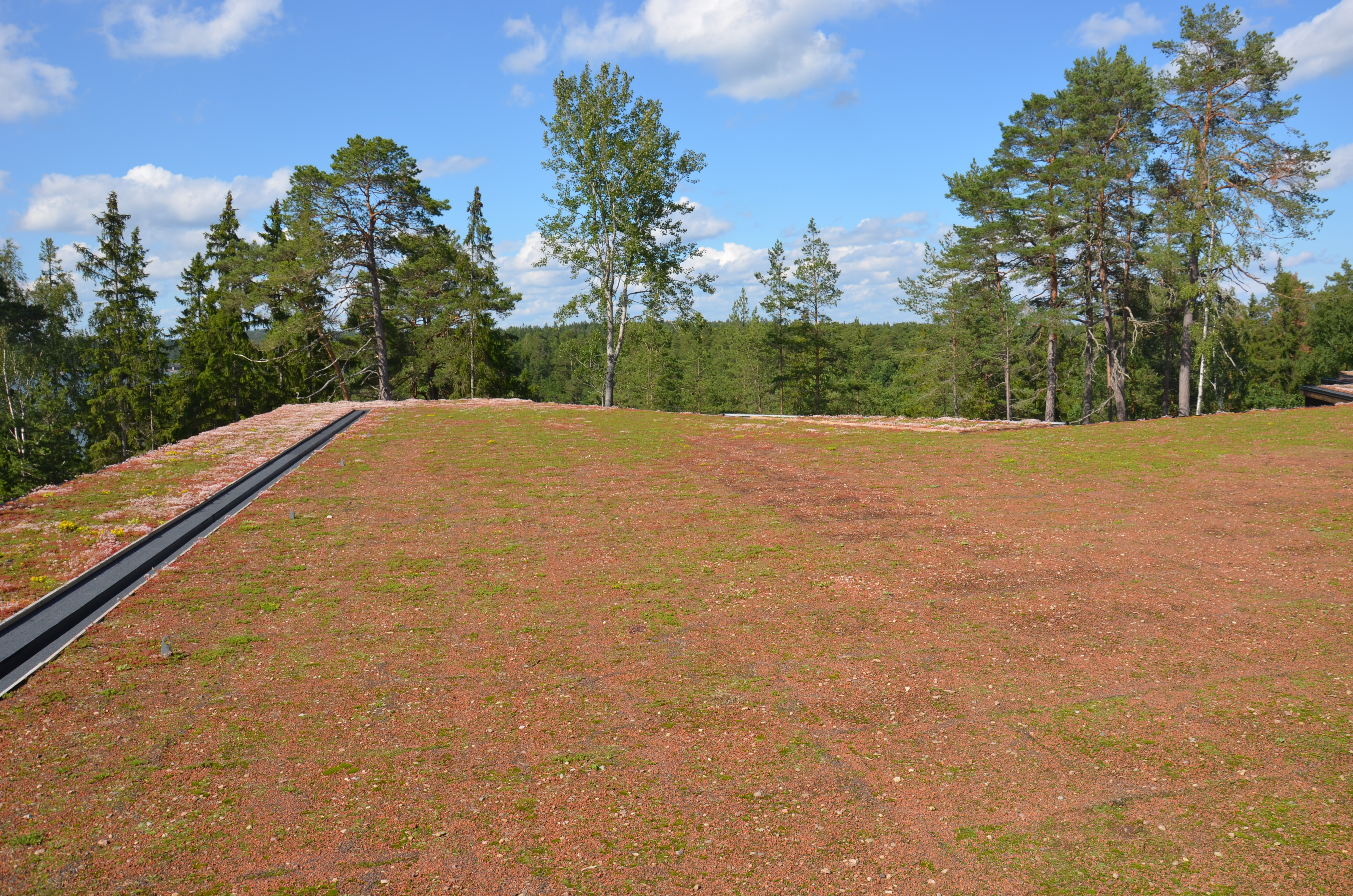 Sedumtäckt tak över konsthallen Artipelag i Gustavsberg